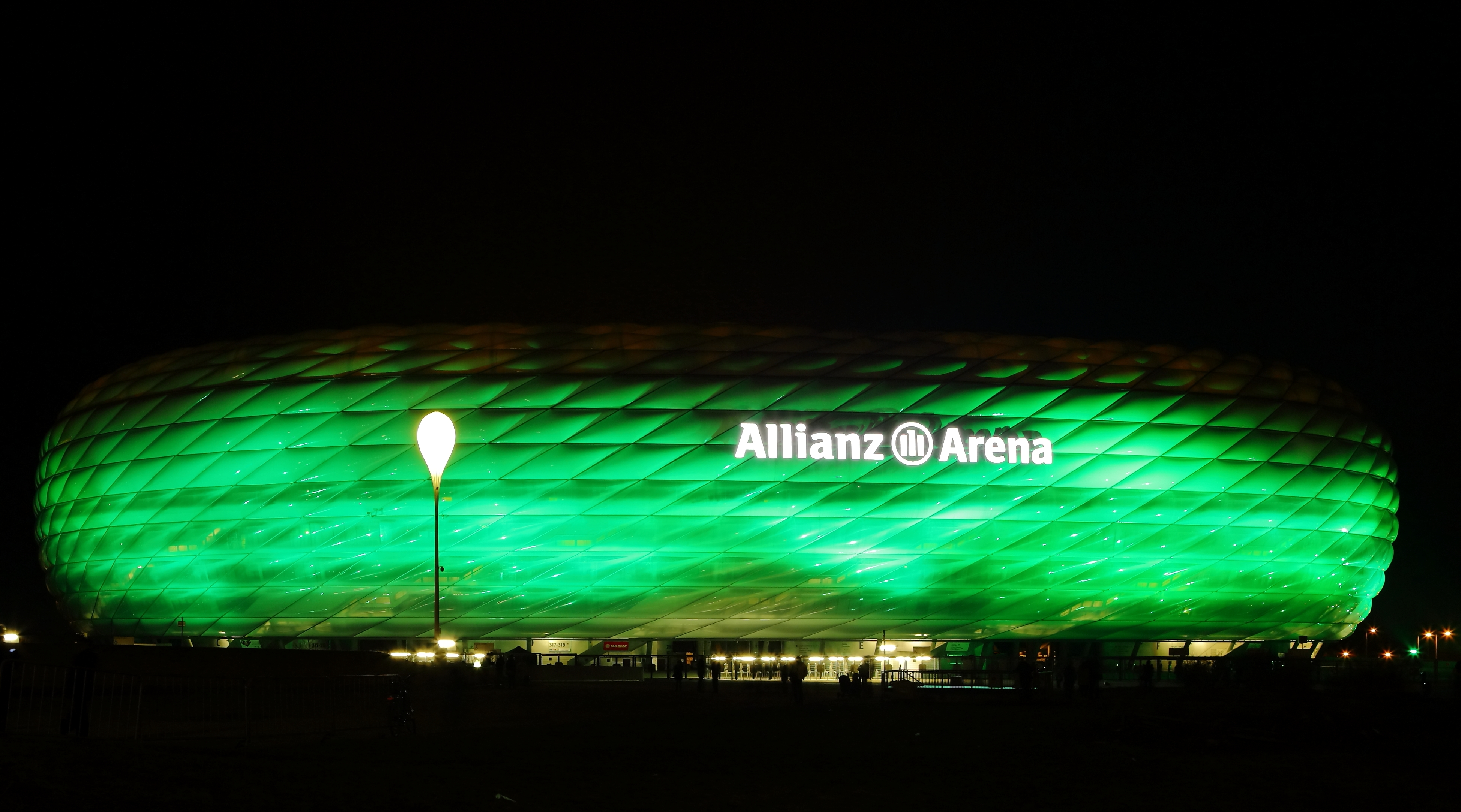 St Patrick's Day 2013 in Munich - Allianz Arena illuminated green